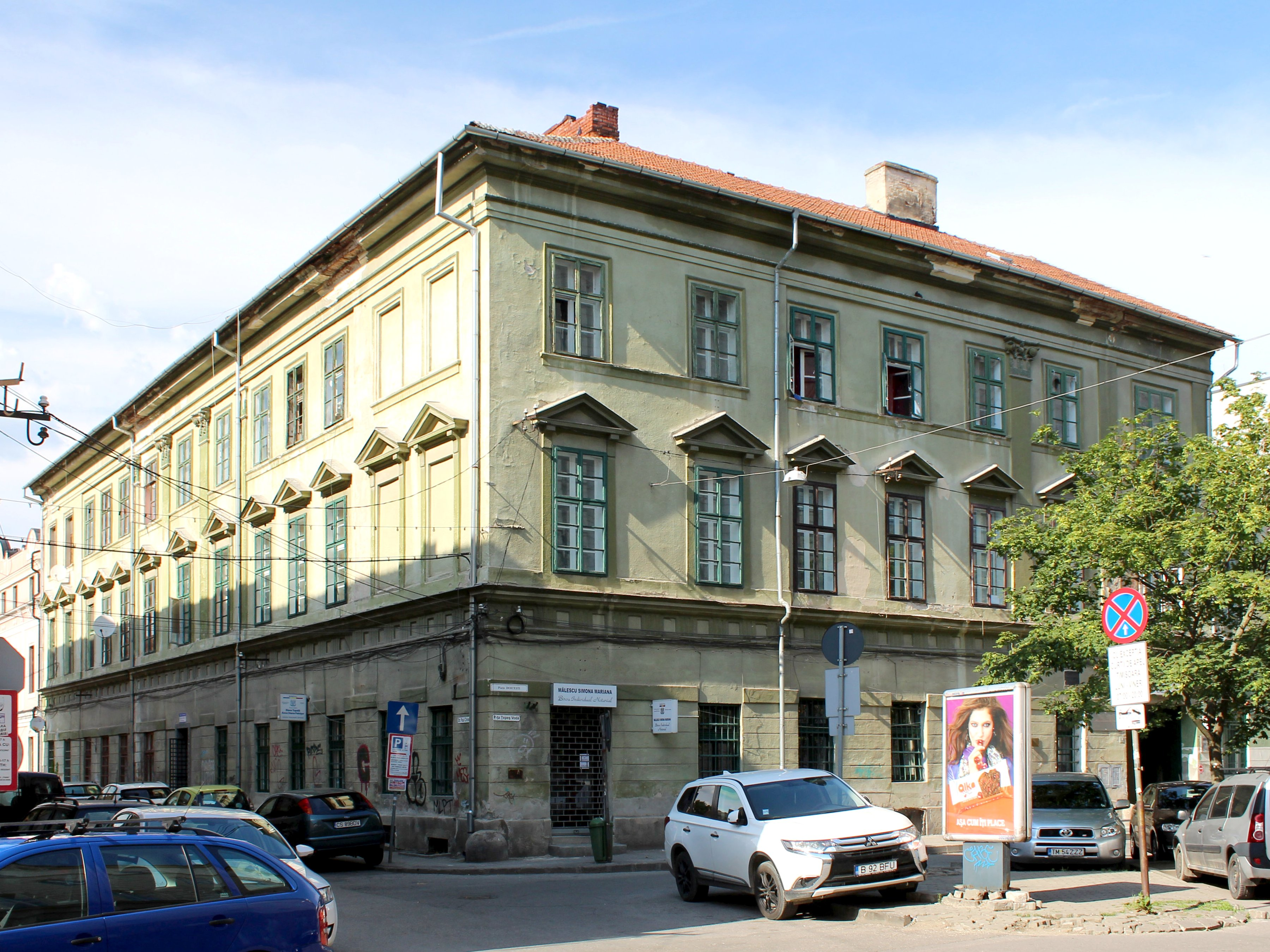 House, Țepeș Vodă Square, no. 1, Timișoara, România, built 1836